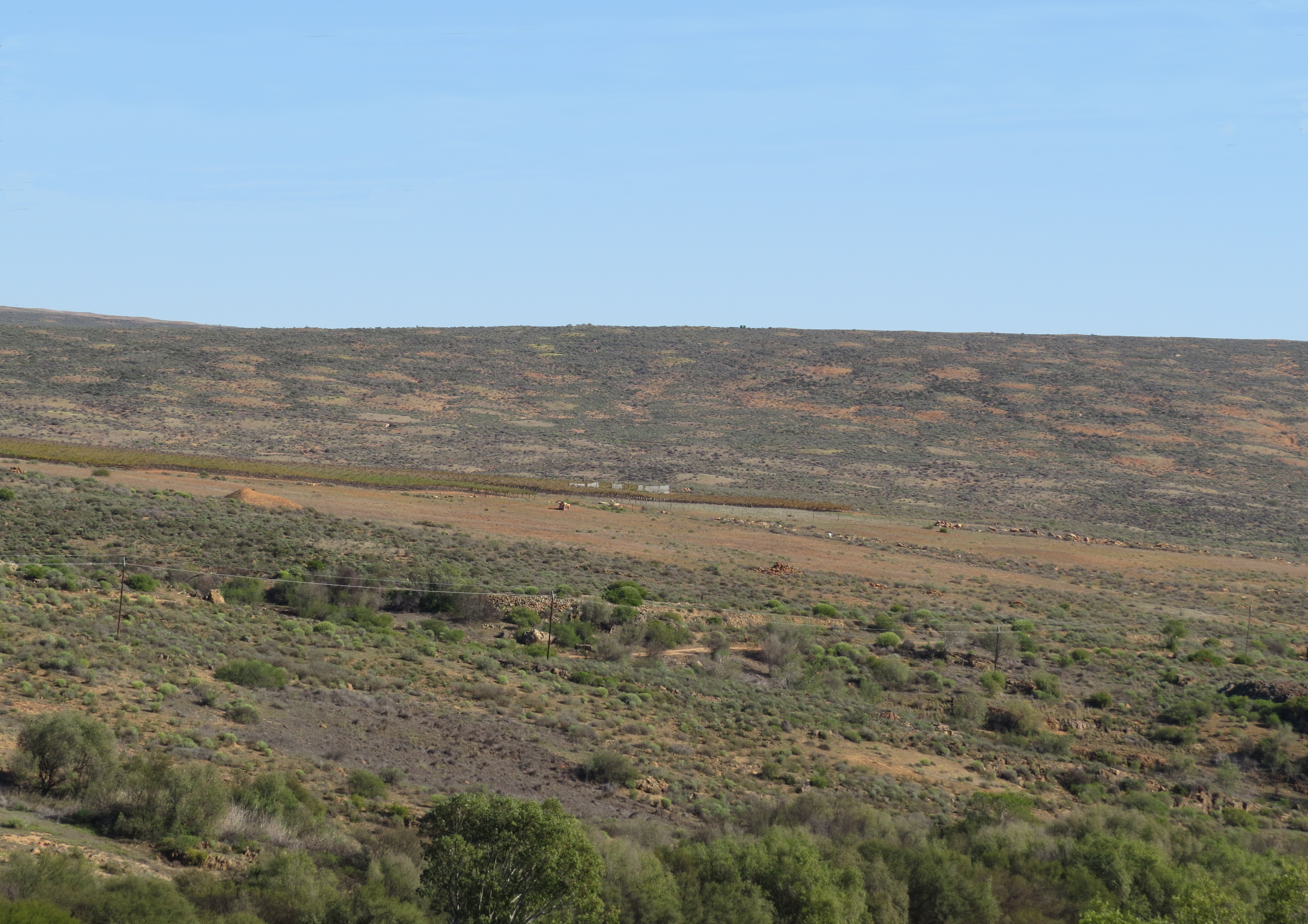 Heuweltjies on a hillside in the North-Western Cape Province of South Africa.